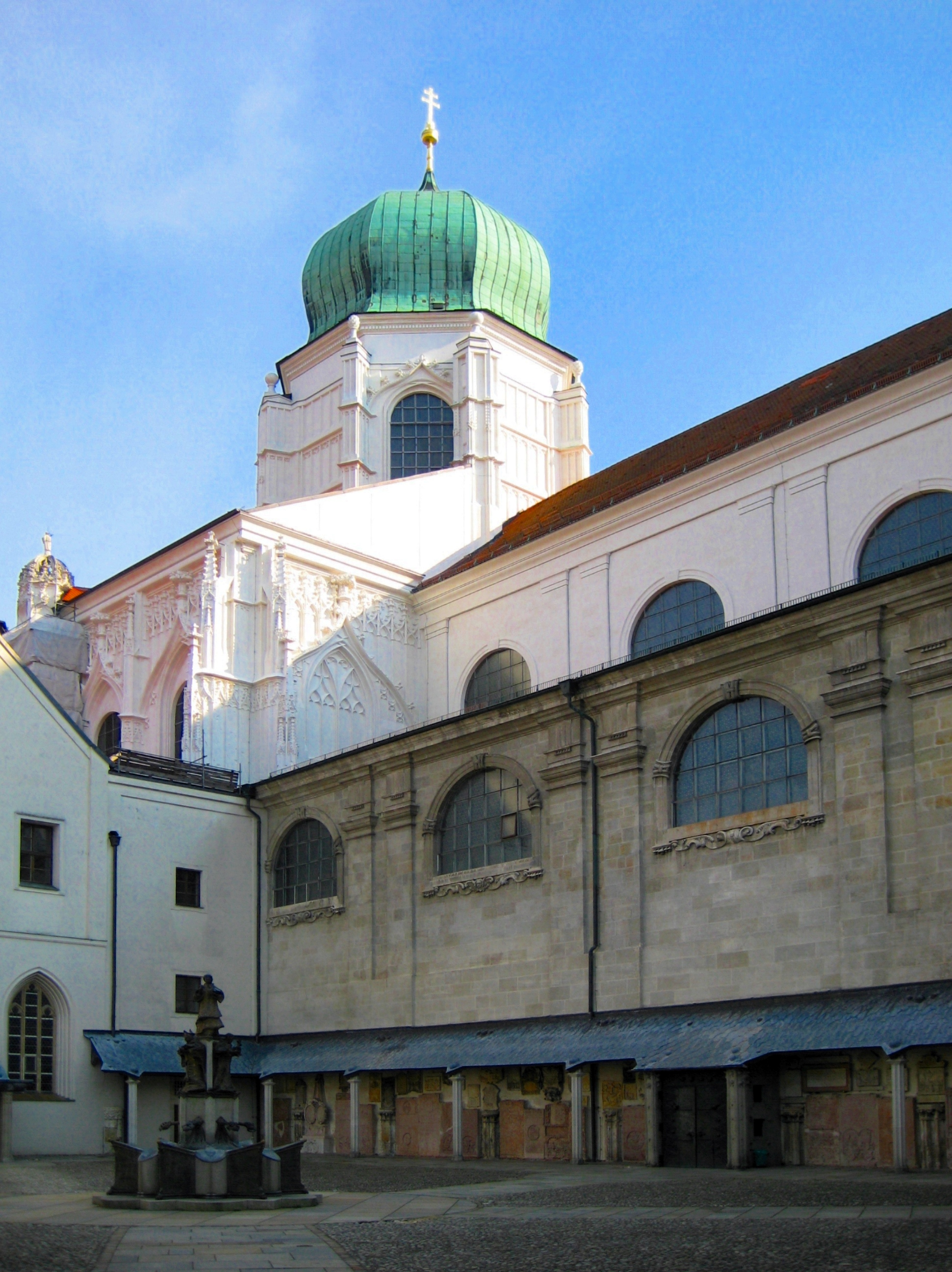 St. Stephan's Cathedral in Passau